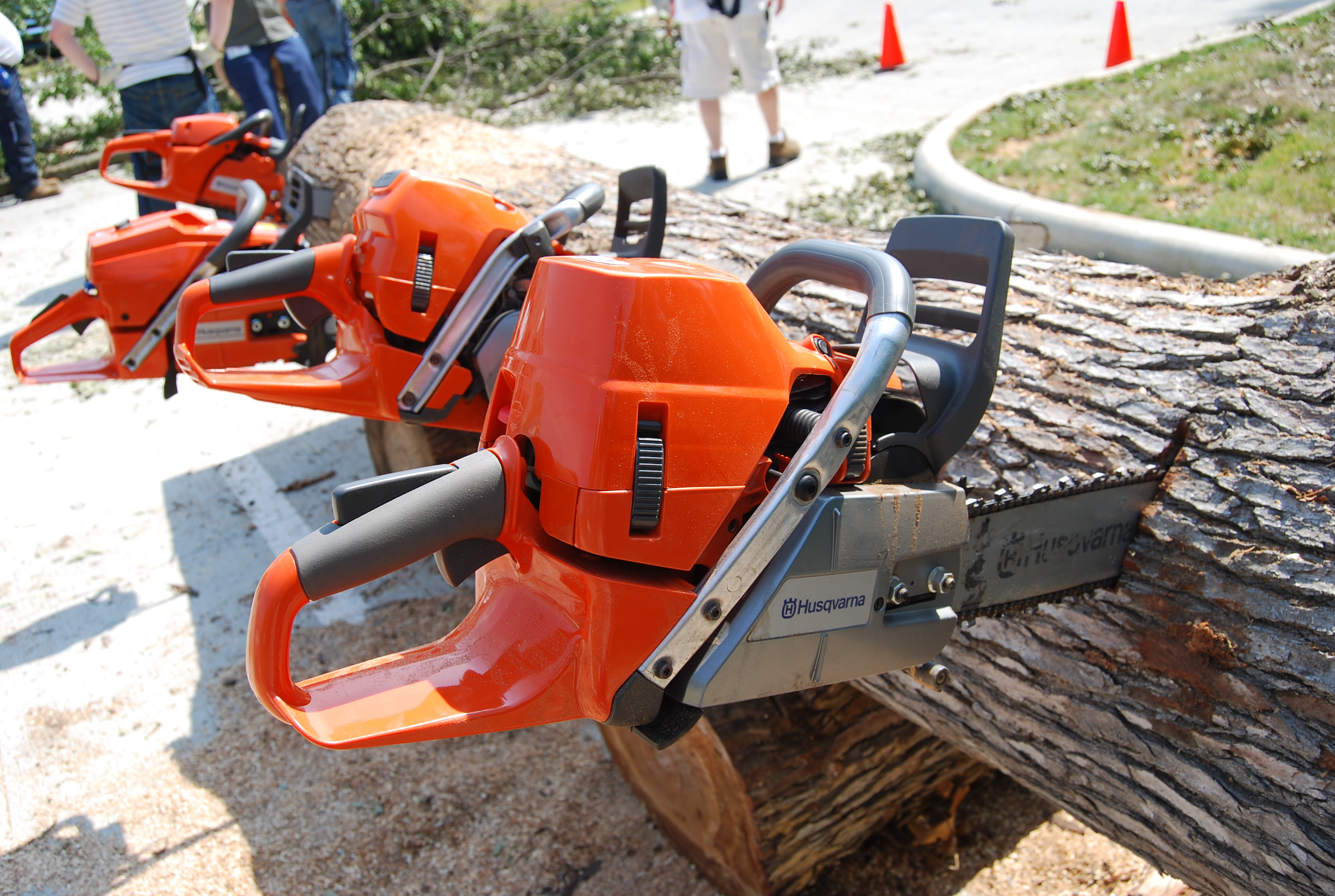 Select media were invited to test the 2011/2012 product lineup from Husqvarna Outdoor Power Equipment. This included chainsaws, trimmers, hedgers, pole saws, riding mowers, zero-turns and more!